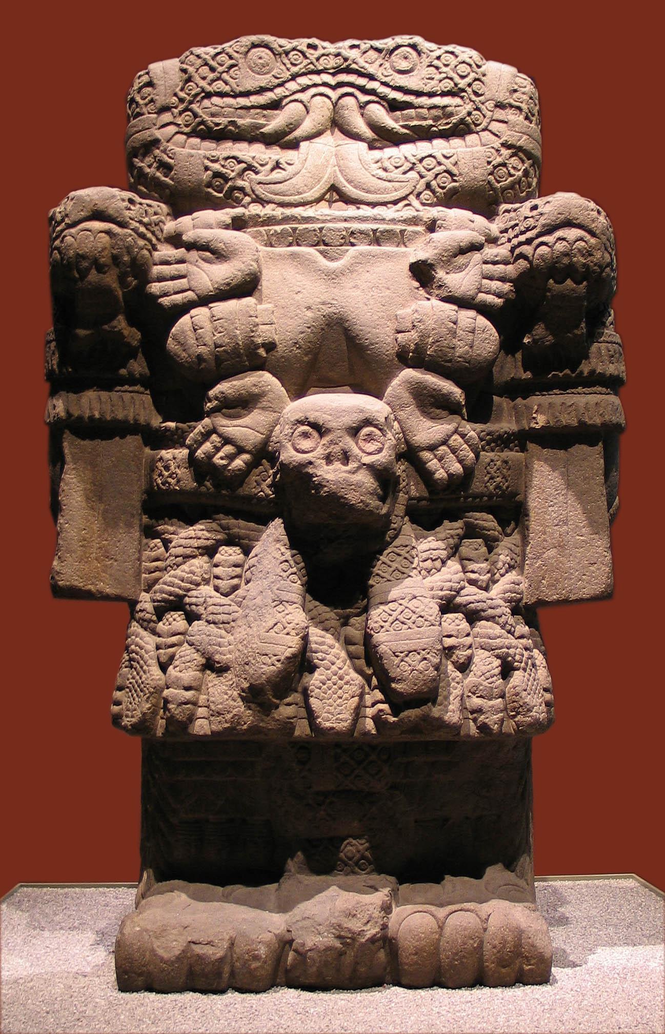 Statue of Coatlicue displayed in National Anthropology Museum in Mexico City.